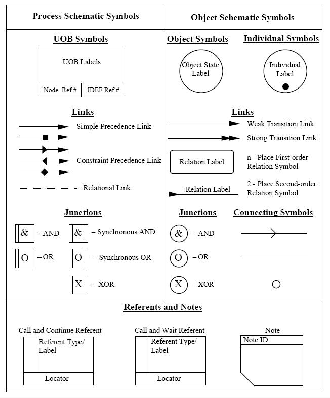 Figure 3-01a Symbols Used for IDEF3 Process Description Schematics